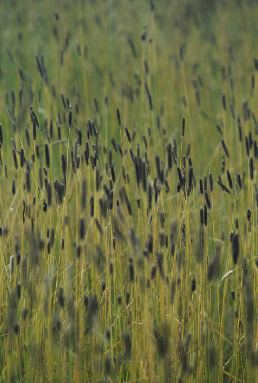 Alopecurus arundinaceus, as well as Alopecurus pratensis, is common in riparian and other wet site settings and is sometimes cultivated as a constituent of grass hay. The inflorescences turning dark in color is distinctive to populations of various species of Alopecurus.